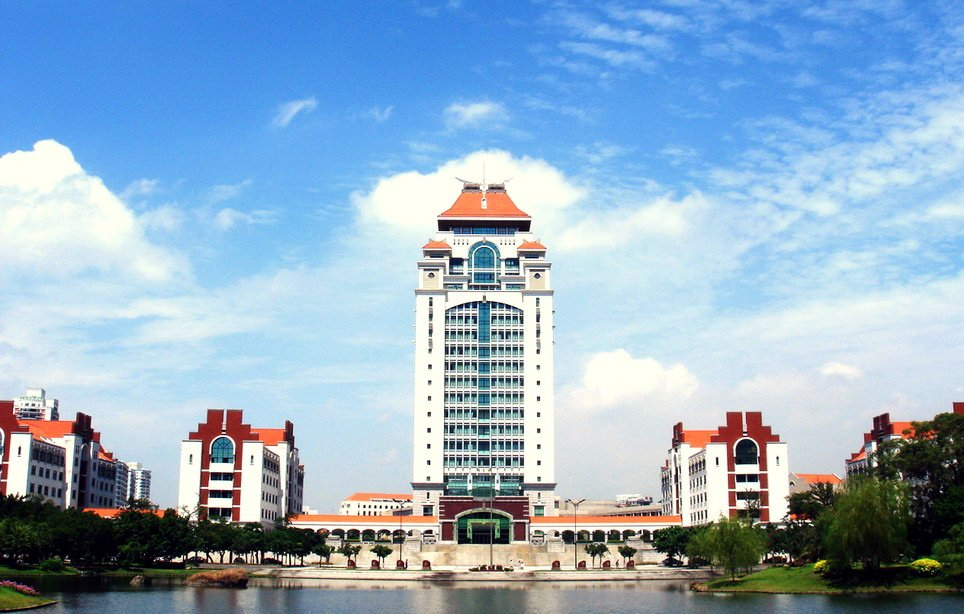 Picture taken by Lukacs at Xiamen University, China.